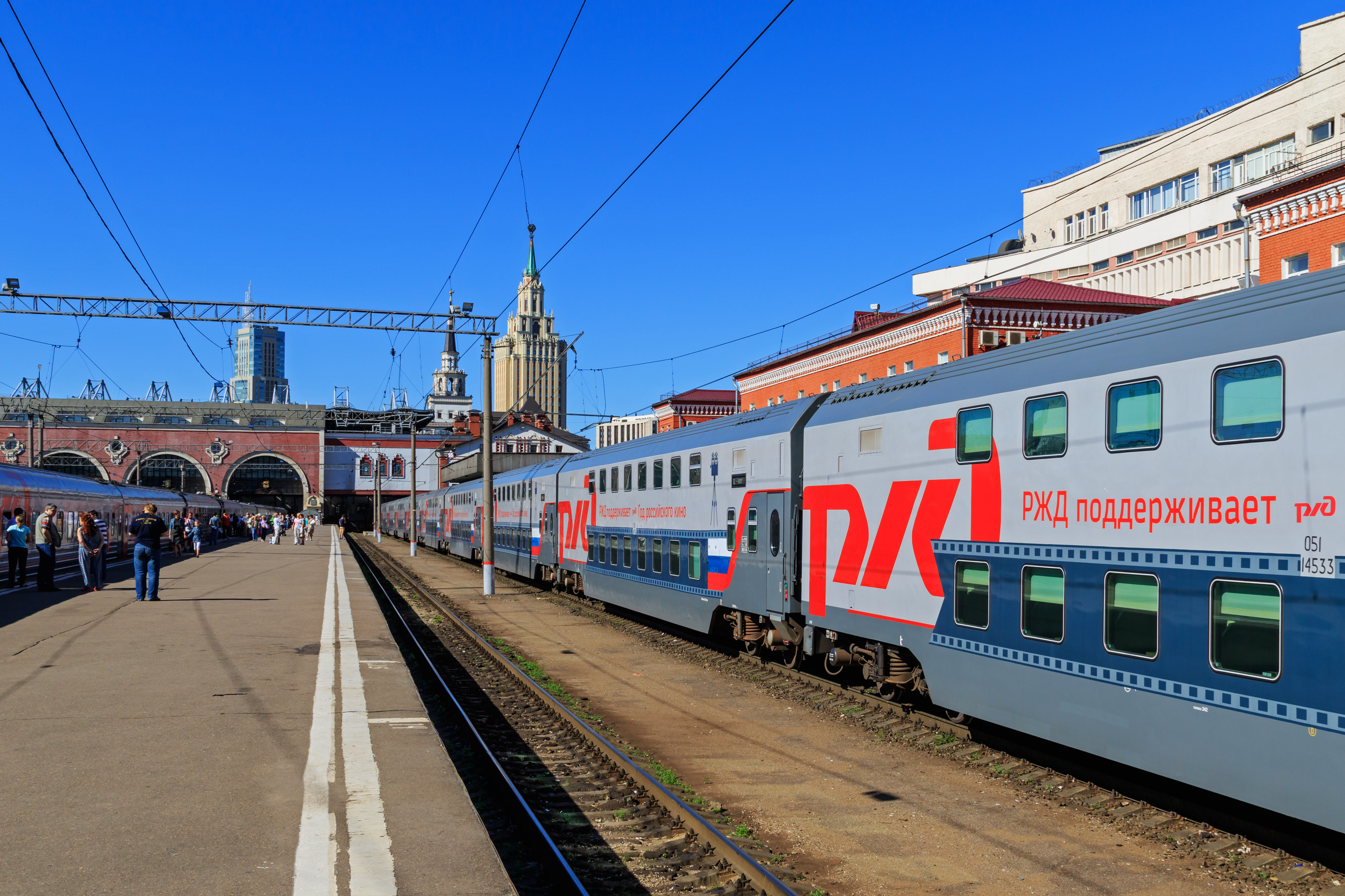 A TverVZ double-decker train on Moscow-Adler route, taken at Kazansky Rail Terminal. Moscow, Russia.